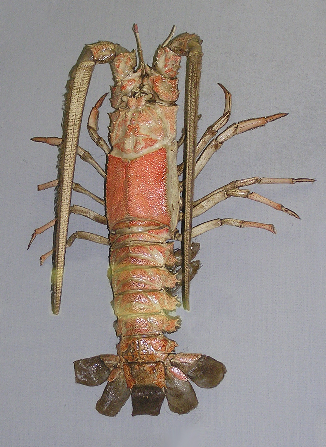 A Japanese spear lobster (Ancistrotus cumingi), on display in Saint Petersburg Zoology Museum, Russia.